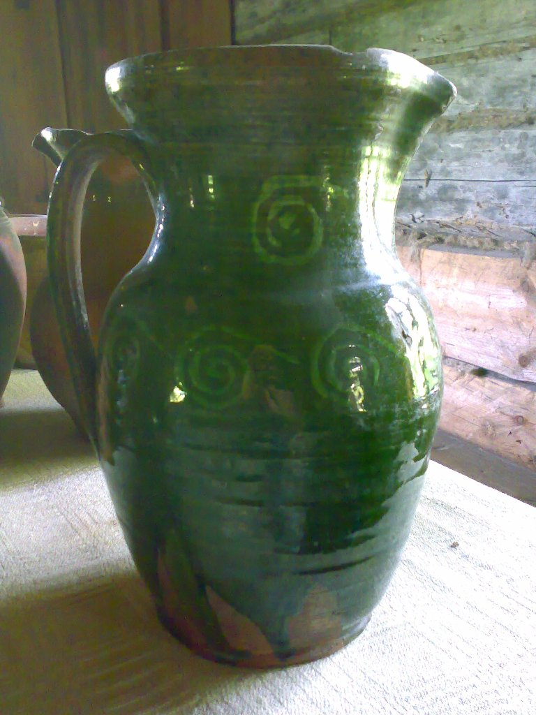 Latgale pottery.